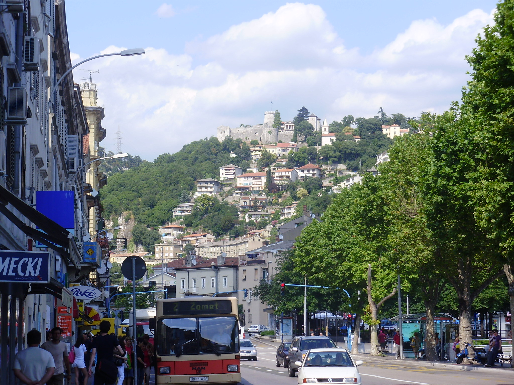 Trsat, Rijeka Croatia